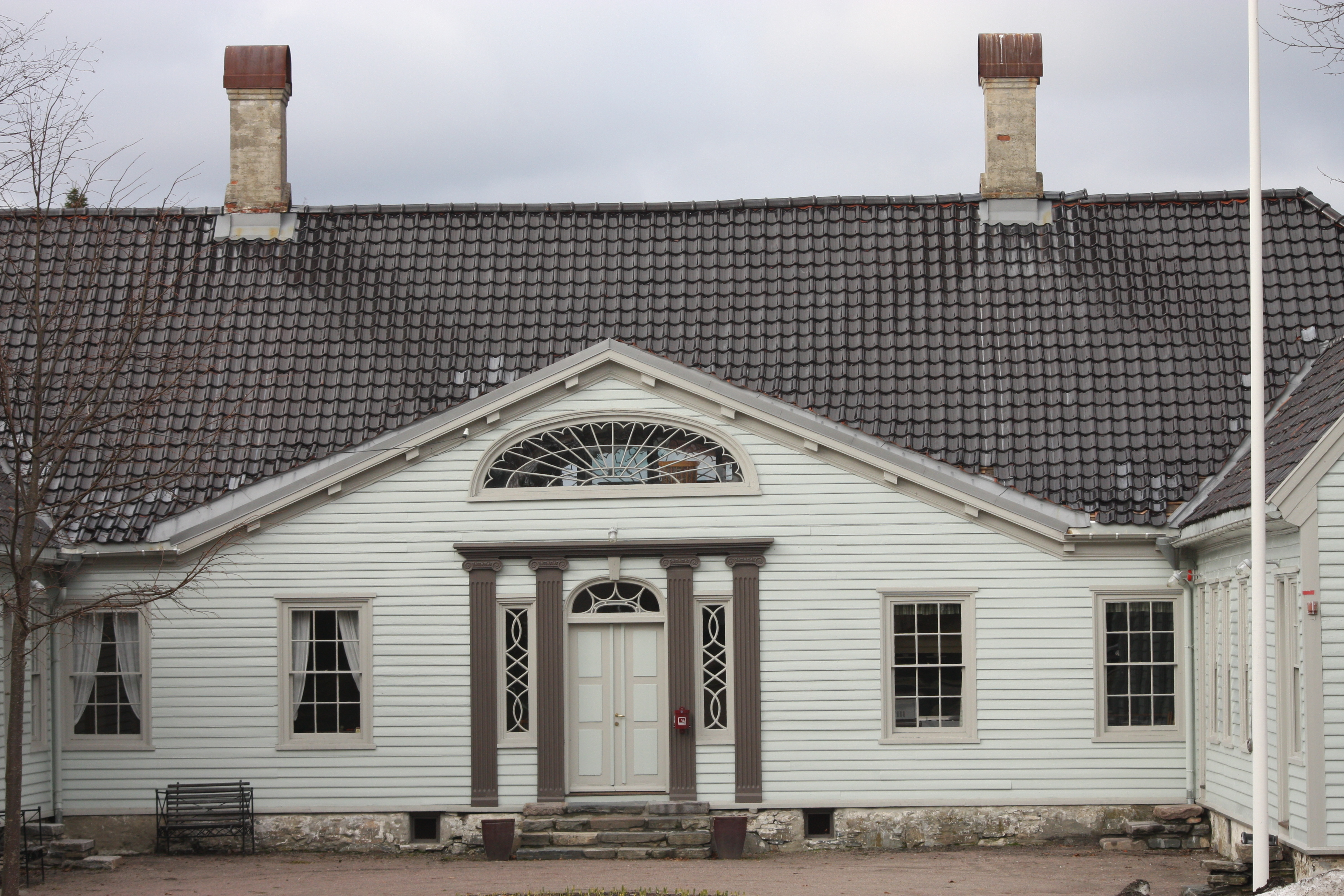 Andöen manor, Andöya (Kristiansand, Norway)